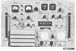 Uhf radio RT-1107/WSC-3